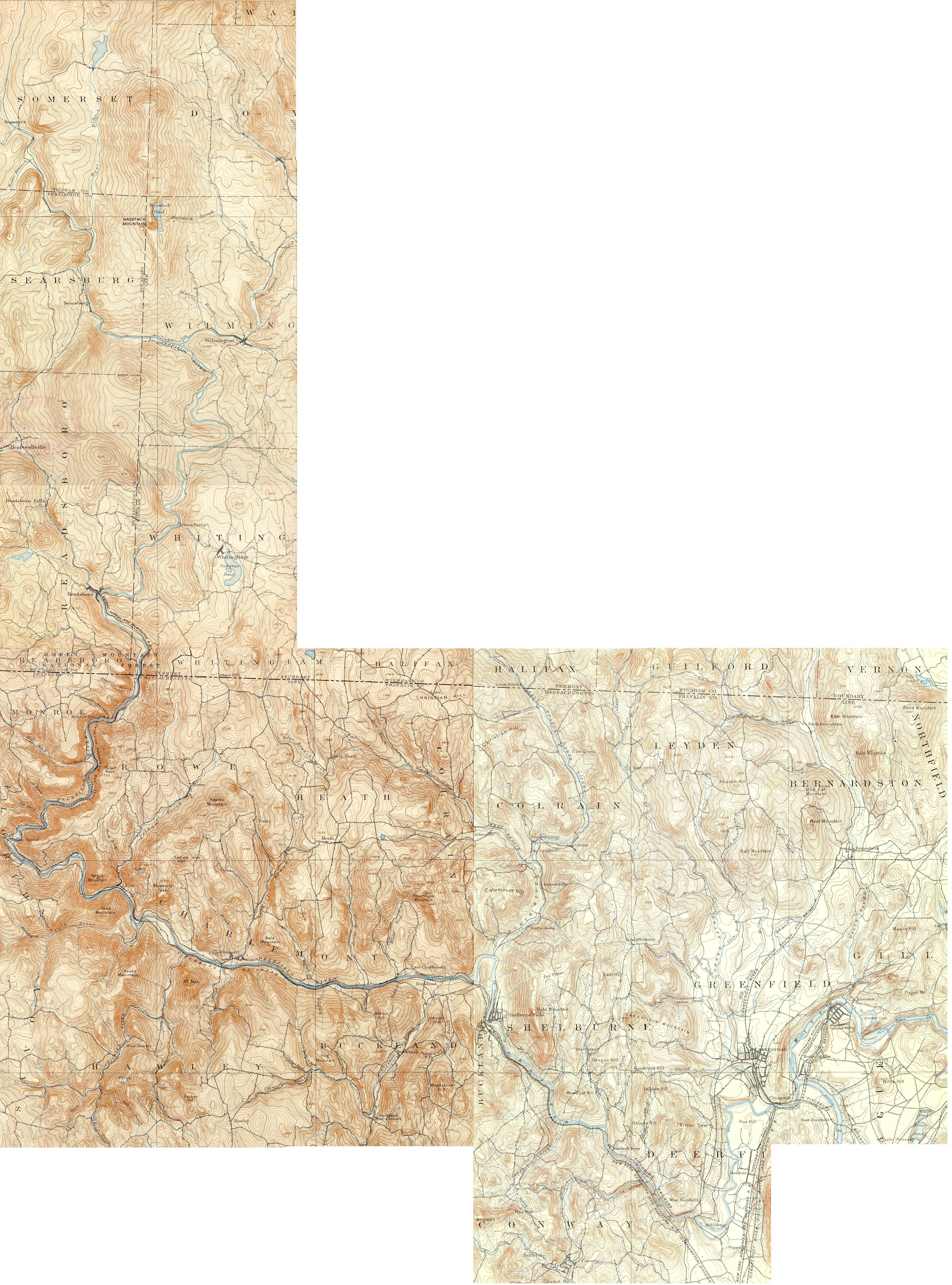 Map of the Deerfield River and environs, Vermont and Massachusetts.